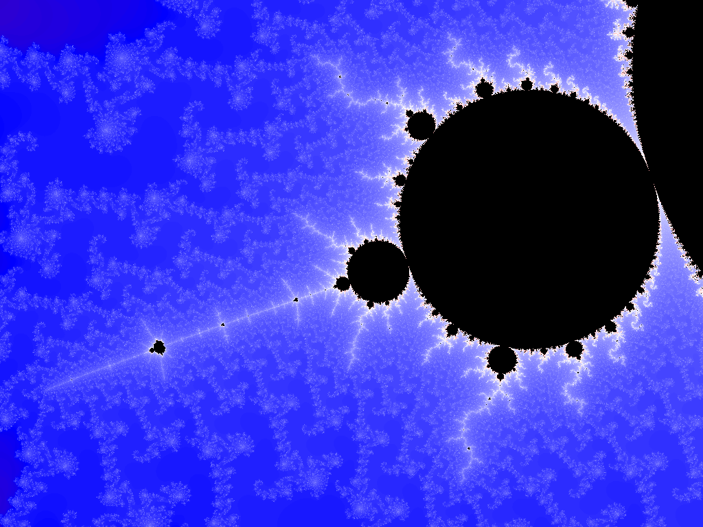 Mandelbrot fractal with a blue logarithmic colour palette made with Fractint. This image was created with freeware DOS program Fractint version 20.0 running in 256 colour mode inside DOSBOX 0.72 on Windows Vista. This region of the Mandelbrot set is the same as File:Mandelbrot fractint red.png